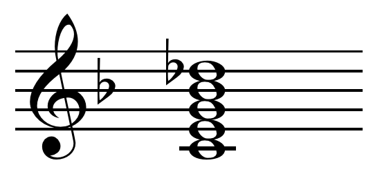 Created by Hyacinth (talk) 23:06, 14 December 2011 (UTC) using Sibelius 5. Dominant minor ninth chord on C. See: File:Dominant_minor_ninth_chord_on_C.mid